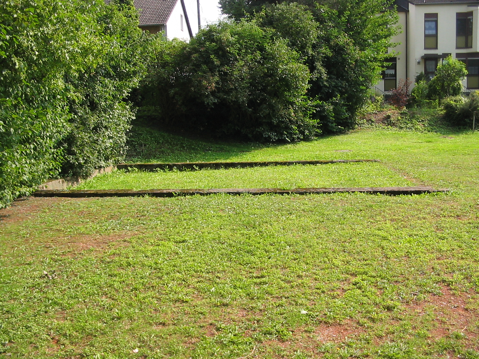 Außenlager Annener Gußstahlwerk des KZ Buchenwald (Subcamp Annen Steelworks of concentration camp Buchenwald) in Witten: water reservoir